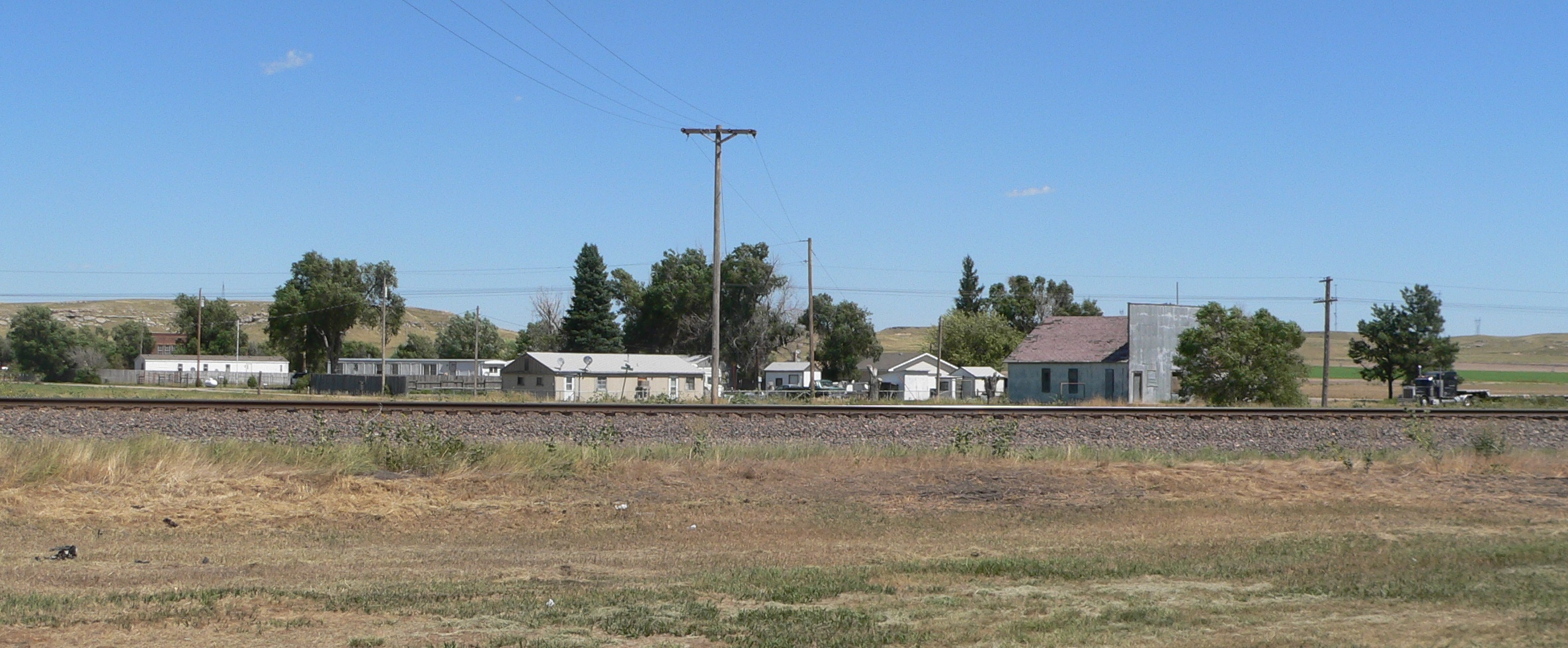 Brownson, Nebraska; seen from the southwest.